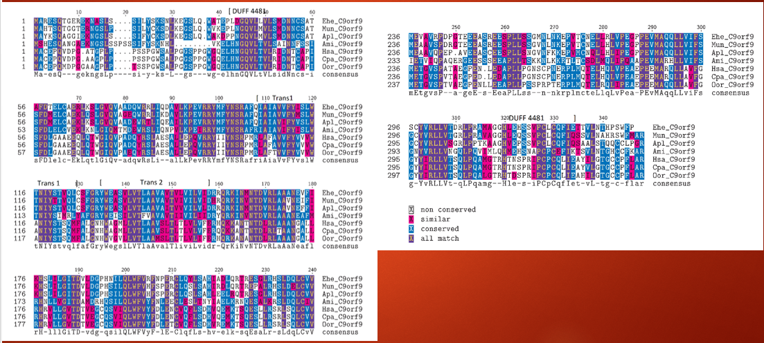 C9orf91 40%+ Identity CLUSTALW